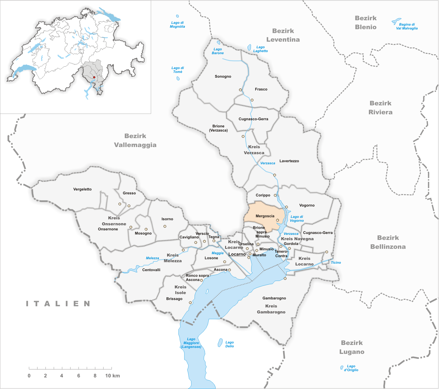 Municipality Mergoscia Artist: Tschubby